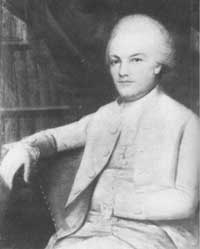 Portrait of Charles Pinckney (governor)